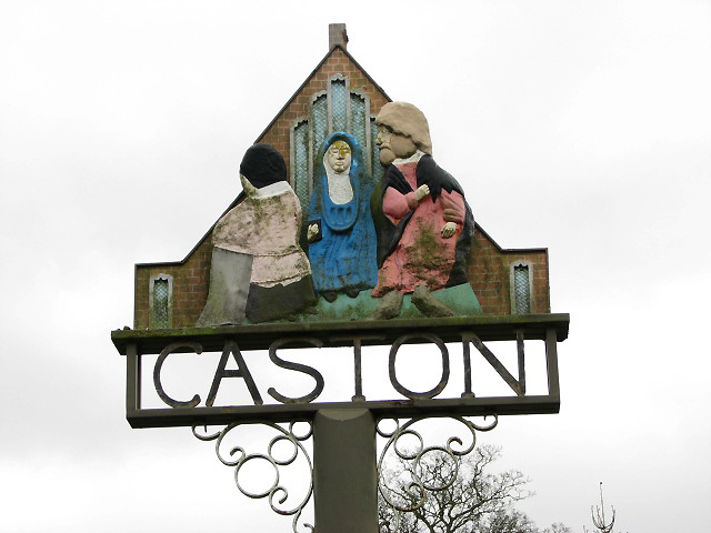 Sign for the village in Caston, near Hingham, Norfolk, England.